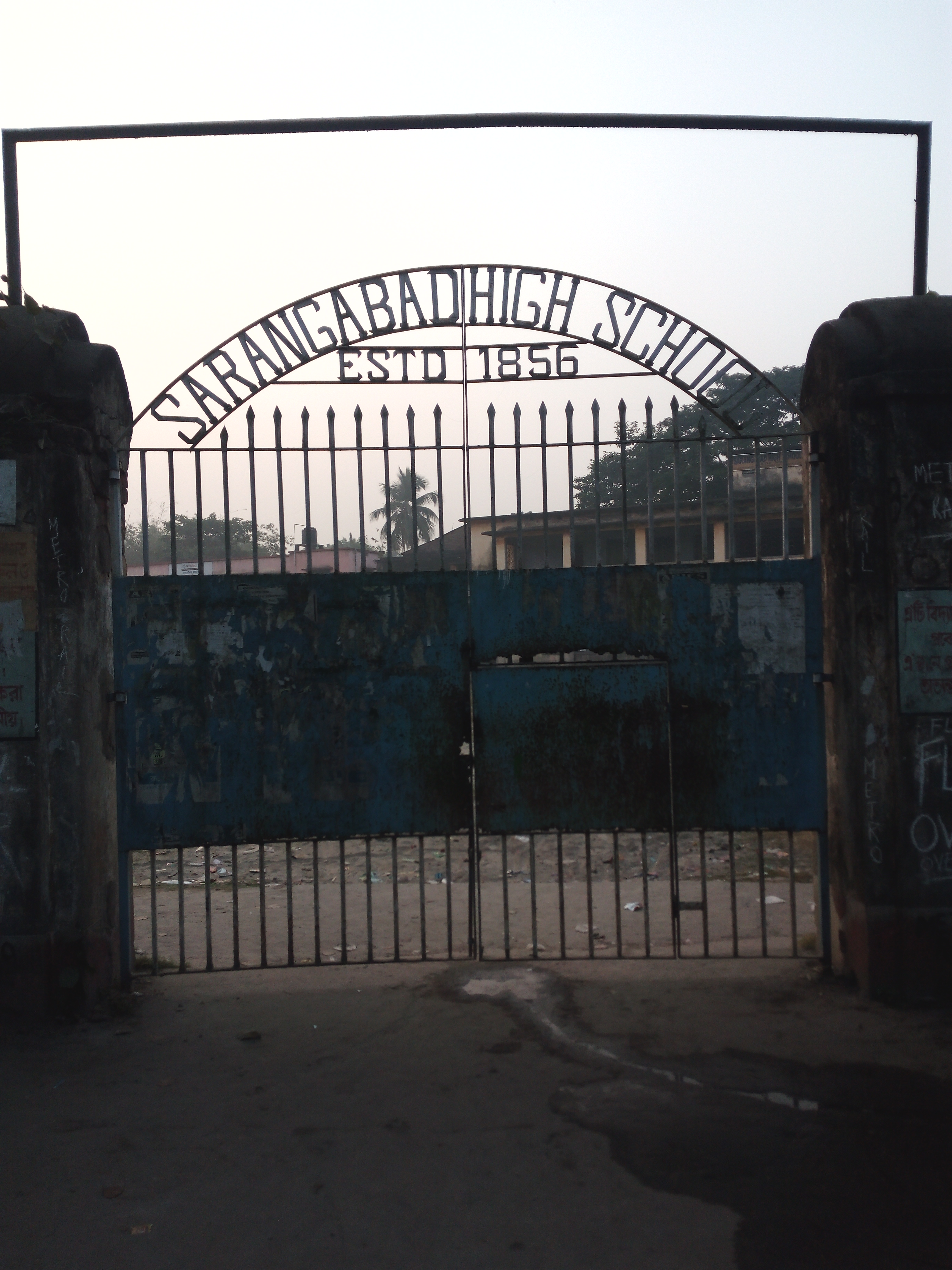 Entrance of Sarangabad High School, Budge Budge, West Bengal